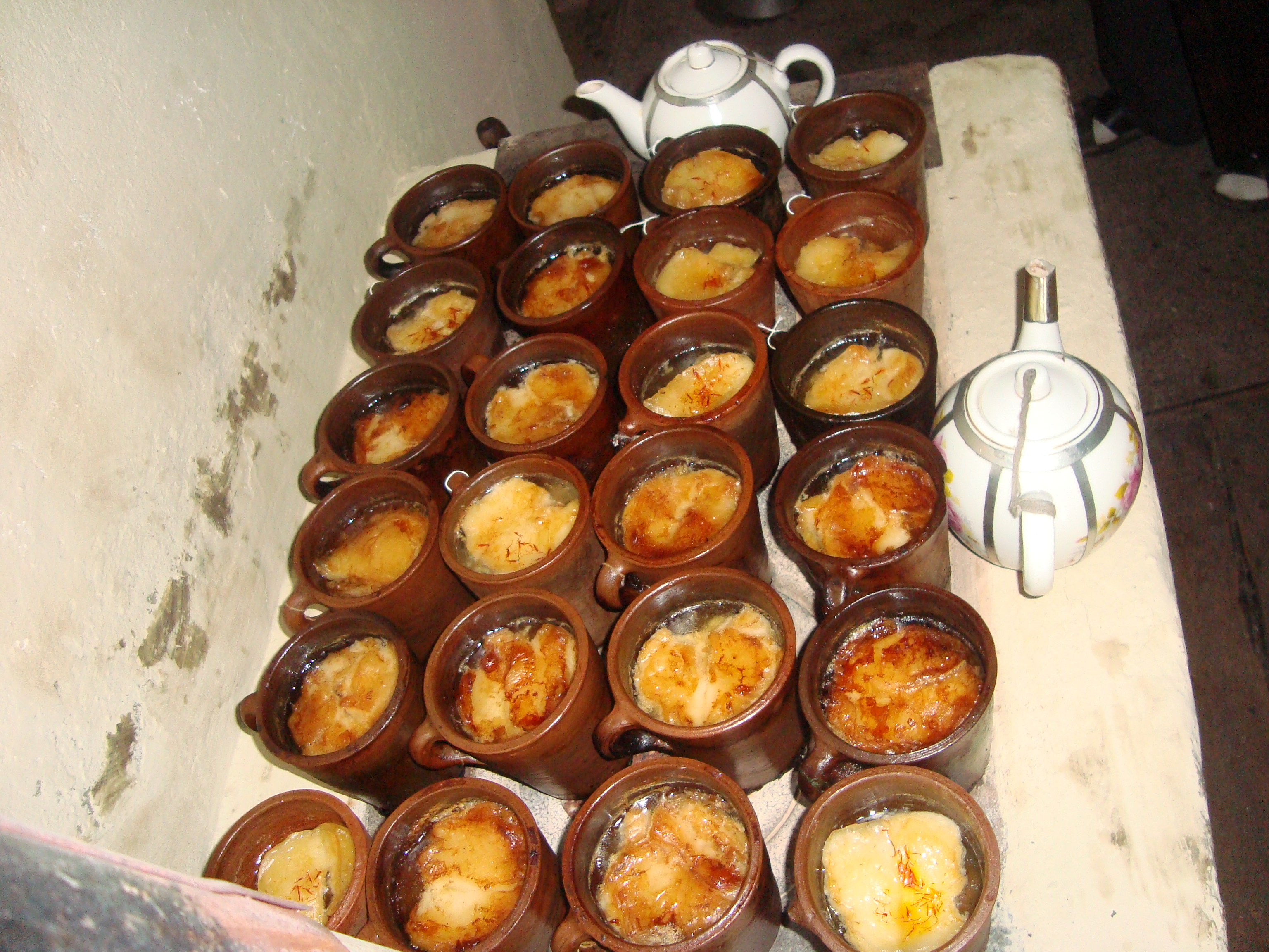 Shaki piti (meat stewed in a brown ware), a national dish of Azeri cuisine